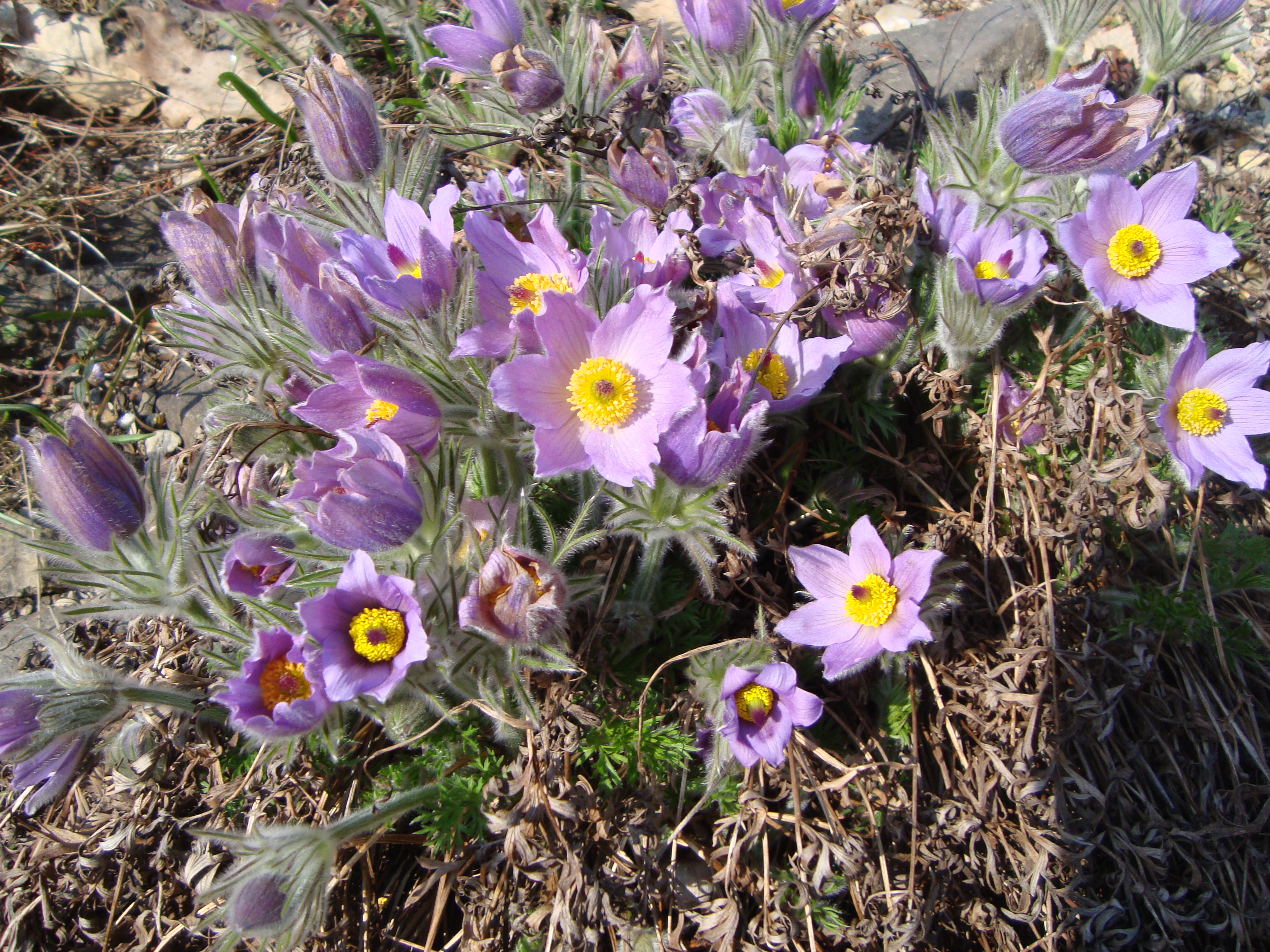 Pulsatilla styriaca seen in the Botanical Garden of Graz Austria